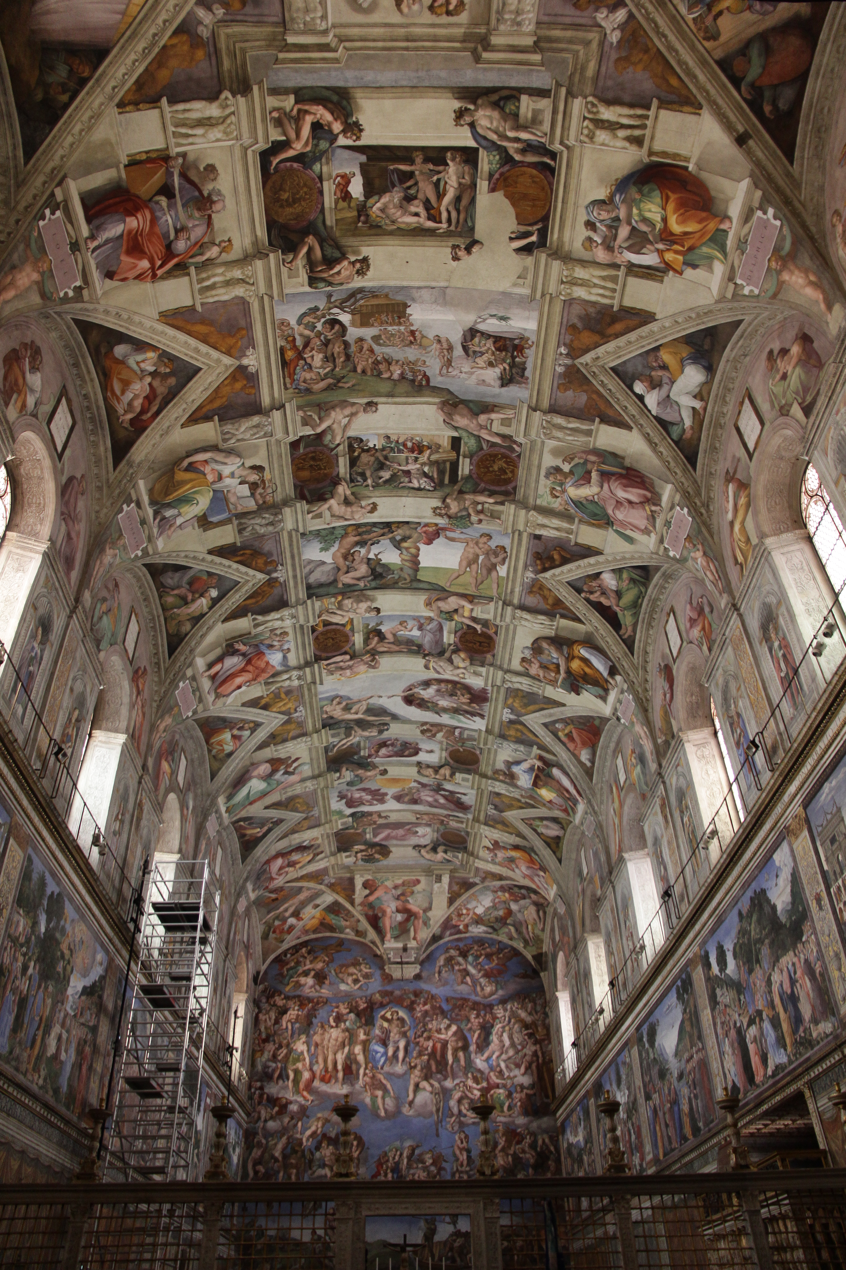 Sistine Chapel with Ceiling and Last Judgement by Michelangelo, Rome, Vatican